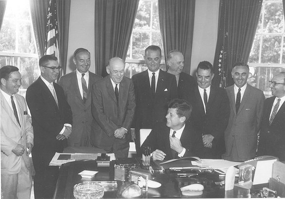 President Kennedy signing the 1961 Amendments into law, June 30, 1961. Shown with the President are (left to right) Rep. Carl Albert (D-OK); Rep. Wilbur Mills (D-AR); Sen. John J. Williams (R-DE); Rep. Thomas J. O'Brien (D-IL); Vice President Lyndon B. Johnson; Sen. Robert S. Kerr (D-OK); Rep. John W. Byrnes (R-WS); Abraham Ribicoff, Secretary of Health, Education, and Welfare; and Wilbur J. Cohen, Assistant Secretary of Health, Education, and Welfare. SSA History Archives.